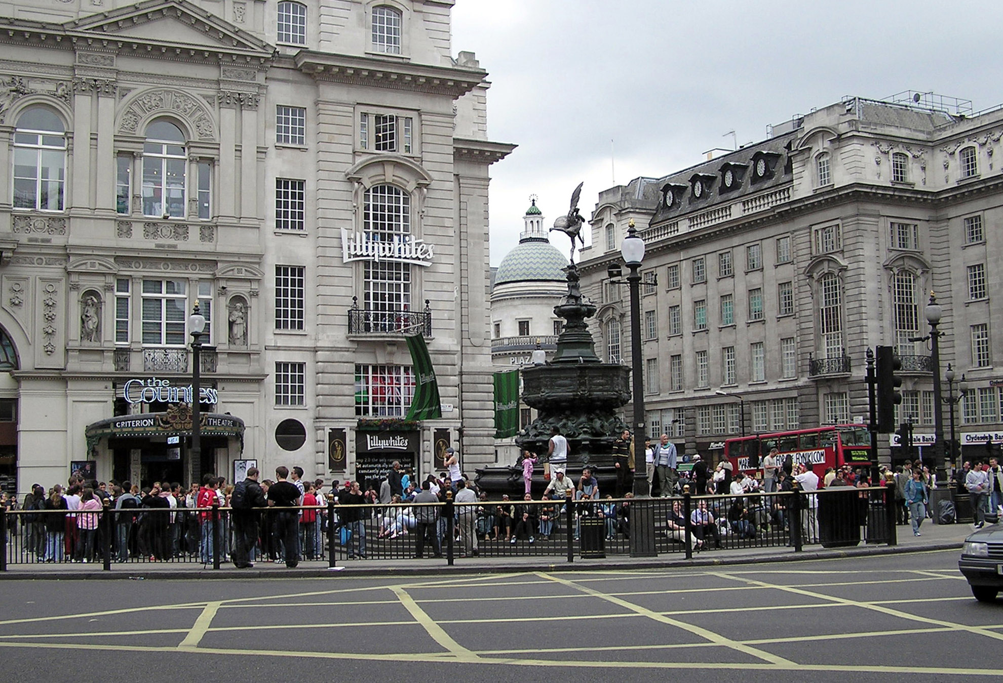 Piccadilly Circus: Eros and the Criterion Theatre. Photographed by Adrian Pingstone in June 2005 and released to the public domain.